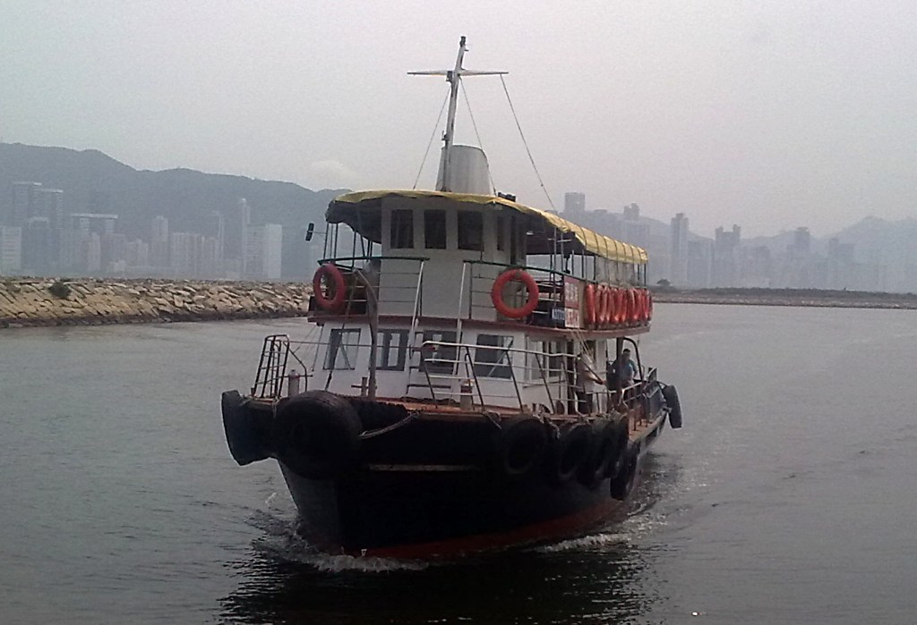 Coral Sea ferries' kai-to about to arrive at Kwun Tong Public Ferry Pier.